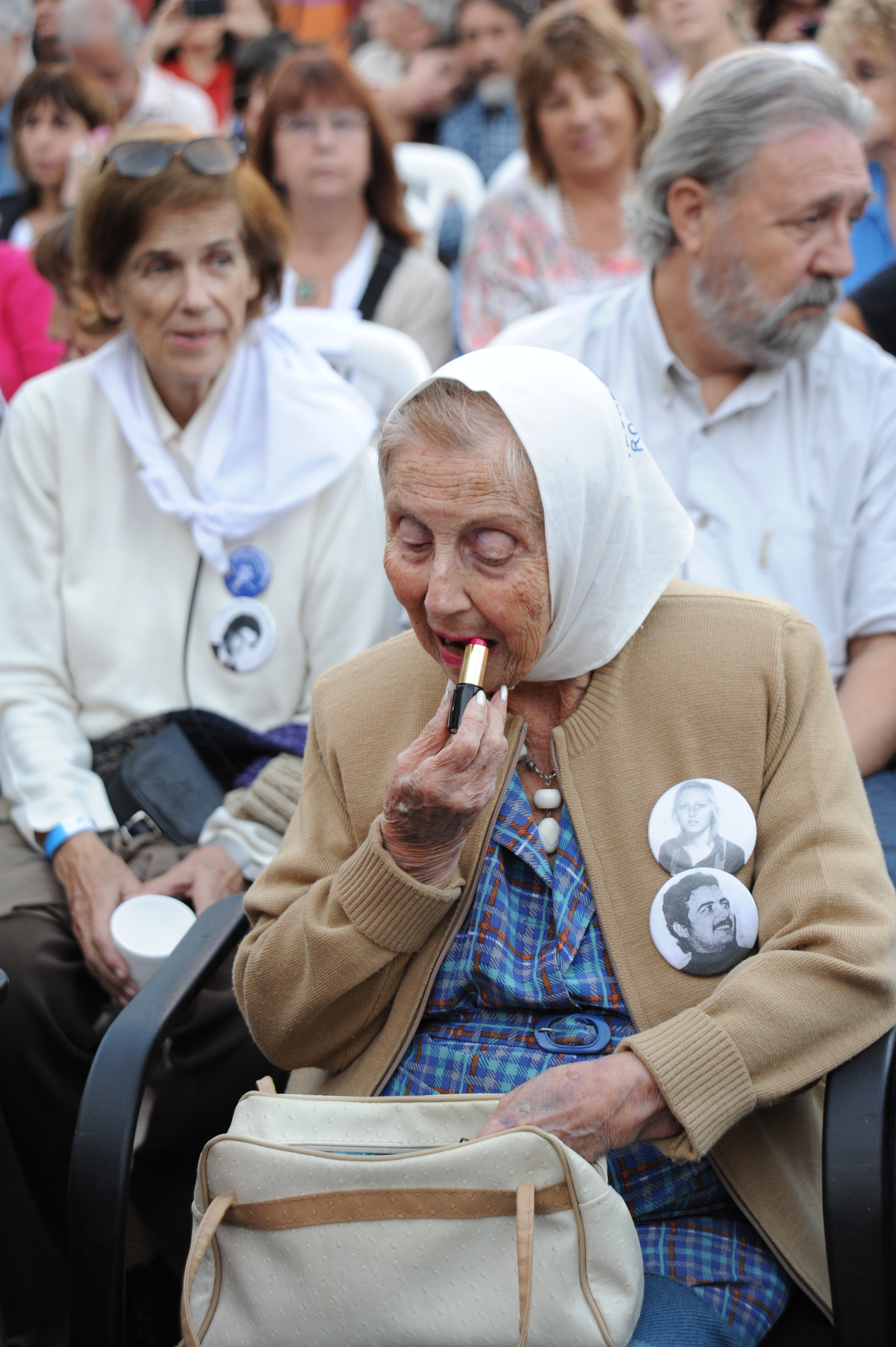 grandma plaza de mayo